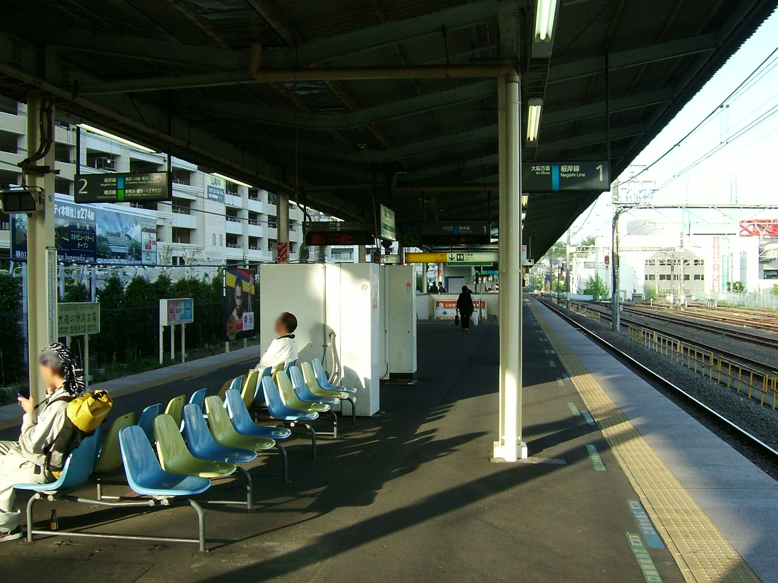 Hongōdai Station platform (East Japan Railway Keihin-Tōhoku Line)